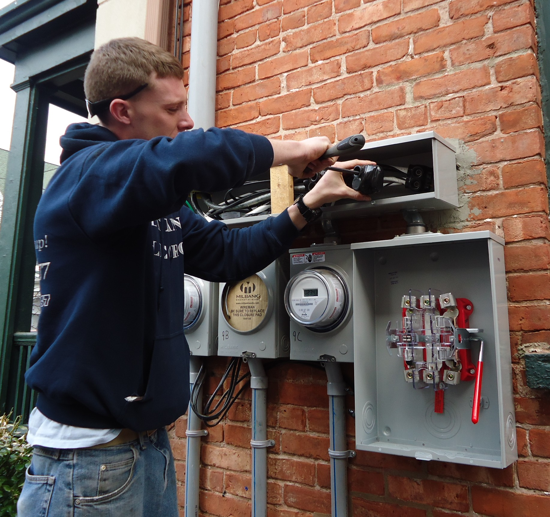 Exterior service panels on a multifamily house. An electrician upgrades service from two meters to four.